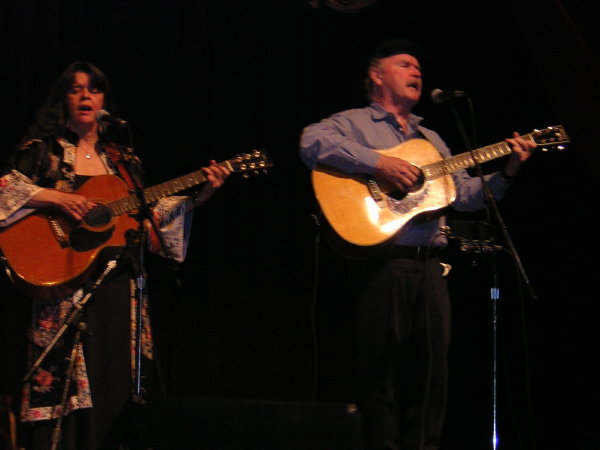 Picture of Anne Hills and Tom Paxton performing at Stuart's Opera House in Nelsonville, Ohio, on May 15, 2005.